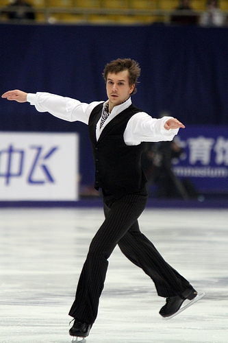 Peter Liebers at the Cup of China 2010